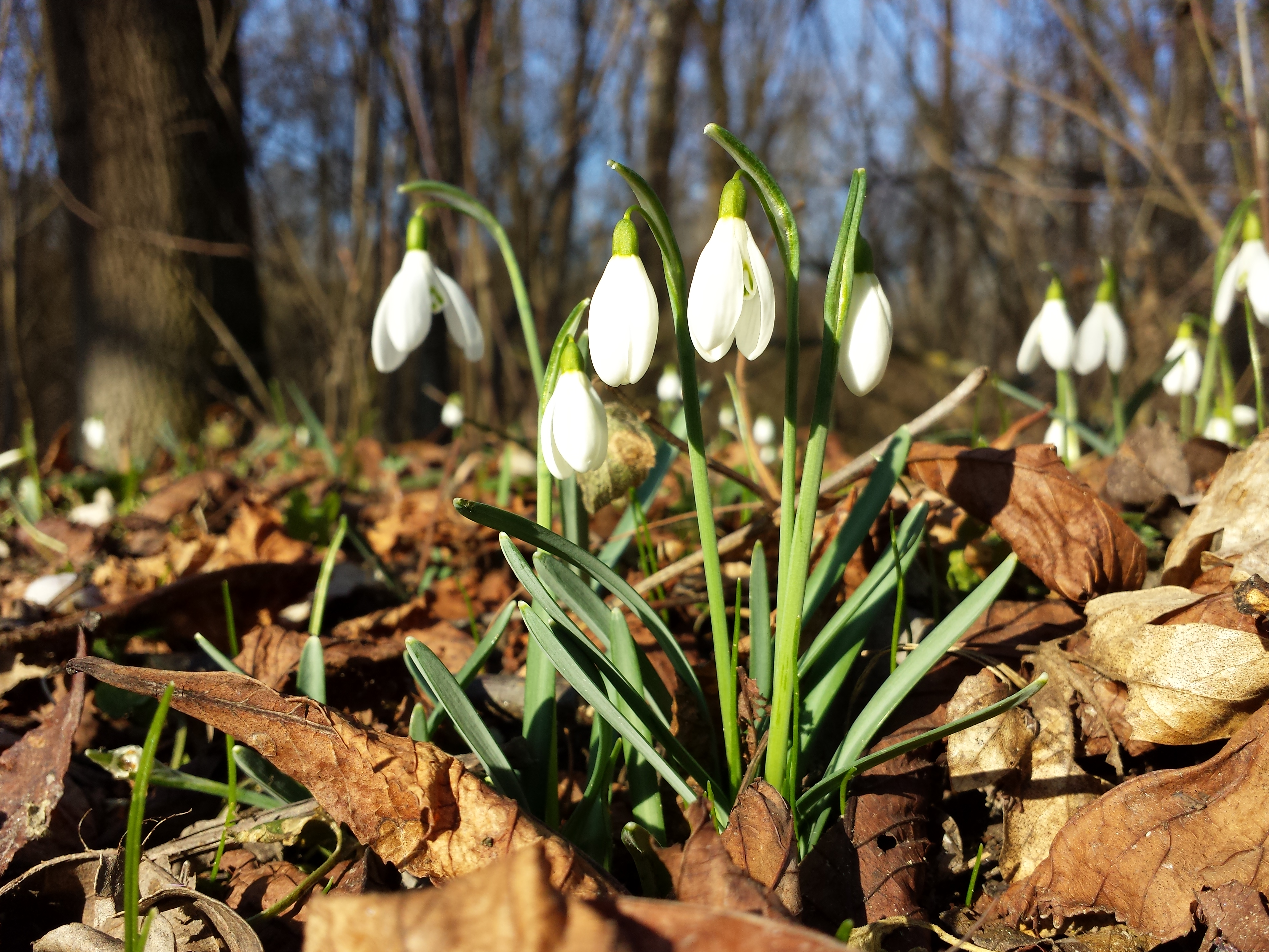 Habitus Taxon: Galanthus nivalis (sensu Fischer et al. EfÖLS 2008 ISBN 978-3-85474-187-9) Location: Nature reserve Stockerauer Au, district Korneuburg, Lower Austria - ca. 170 m a.s.l. Habitat: riparian forest This media shows the nature reserve in Lower Austria with the ID 45.